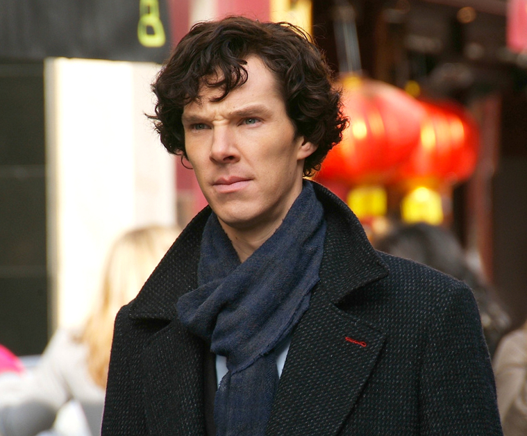 Chinatown, London. Benedict Cumberbatch during filming of Sherlock.